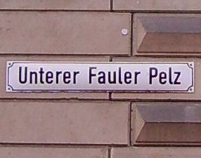 street of Heidelberg, Germany